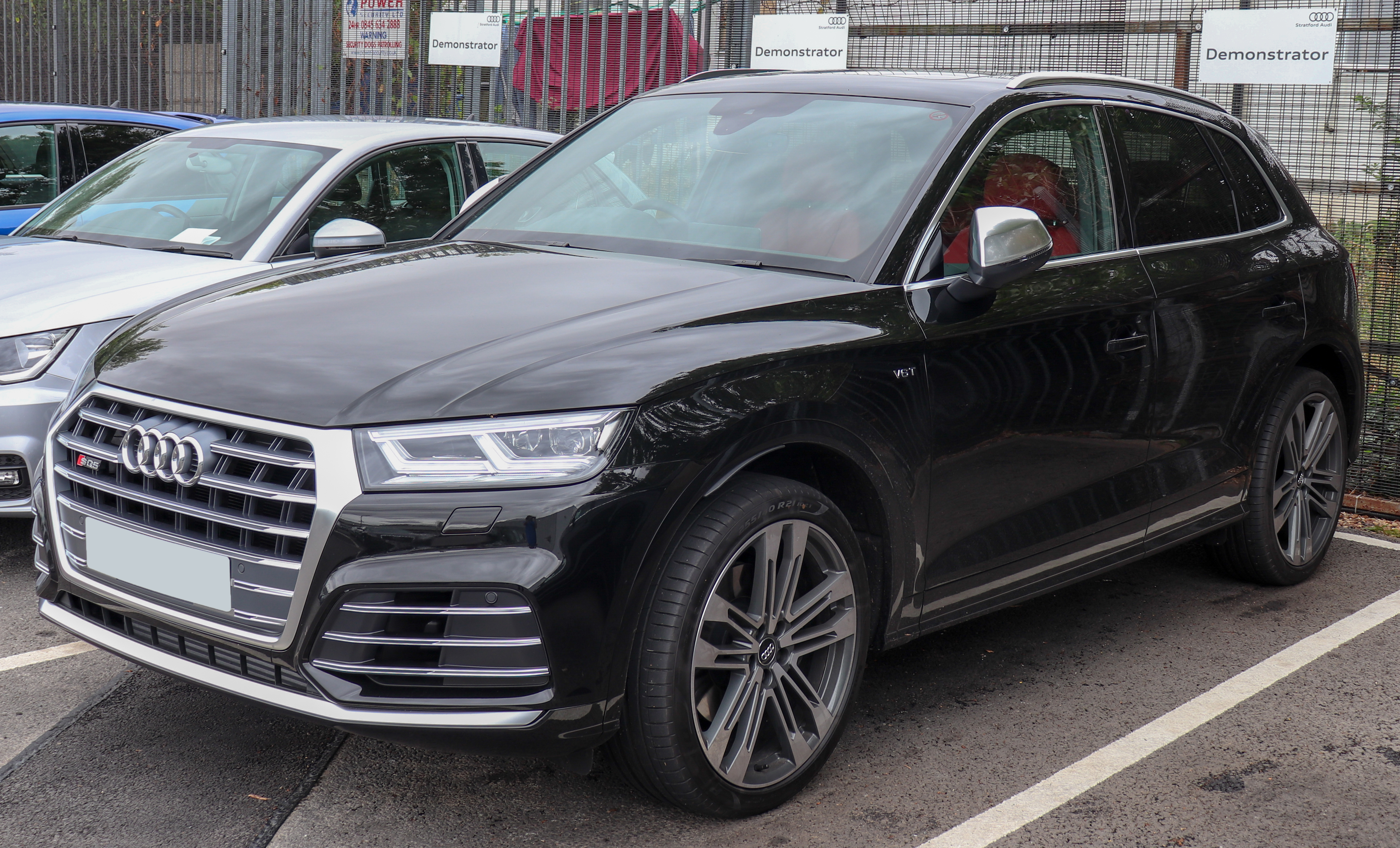 2018 Audi SQ5 3.0 Taken in Stratford-upon-Avon